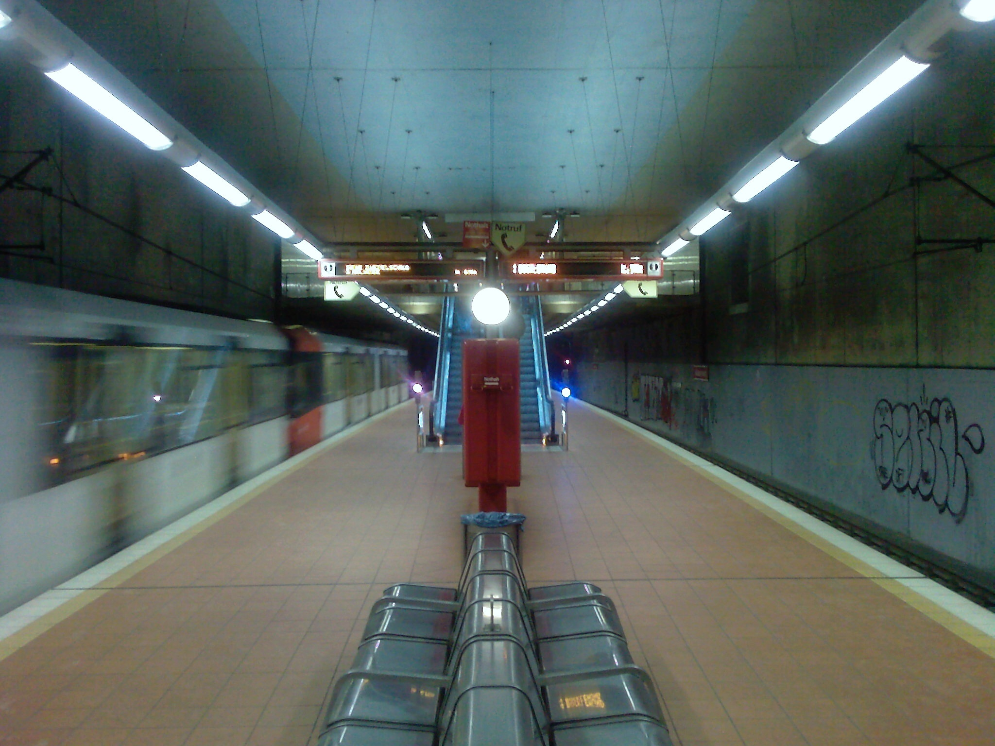 U-Bahnhof Akazienweg, Cologne, Germany